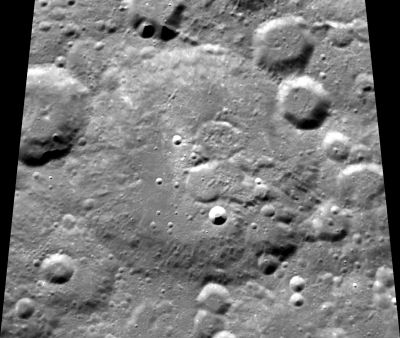 Clementine image of Gamow crater, on the moon.